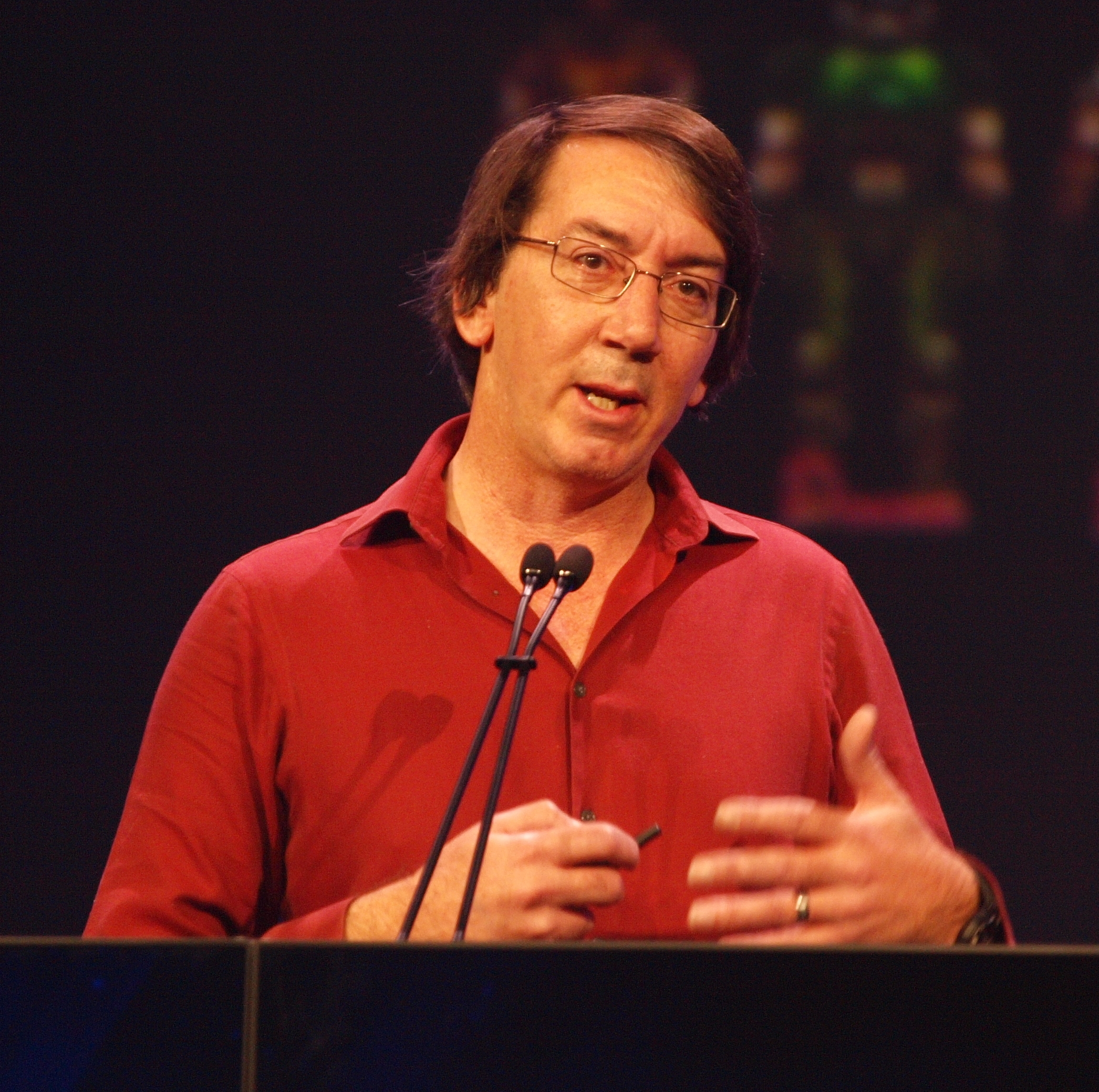 Will Wright at the Game Developers Conference in 2010, during the Game Developers Choice Awards.